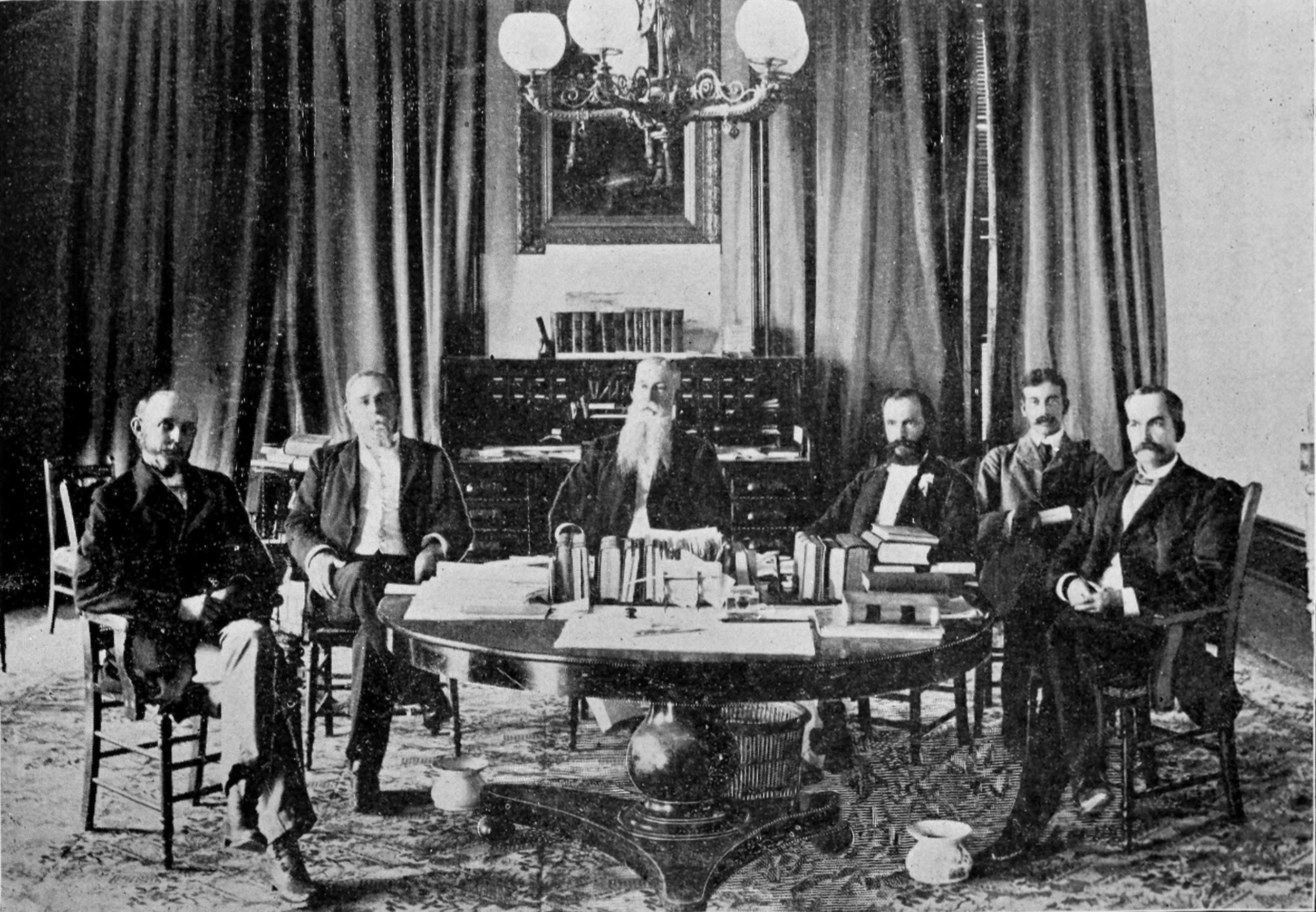 President Sanford B. Dole and his cabinet ministers. Samuel Mills Damon, James A. King, Sanford B. Dole, Henry E. Cooper, Benjamin L. Marx (executive secretary), and William Owen Smith [1].